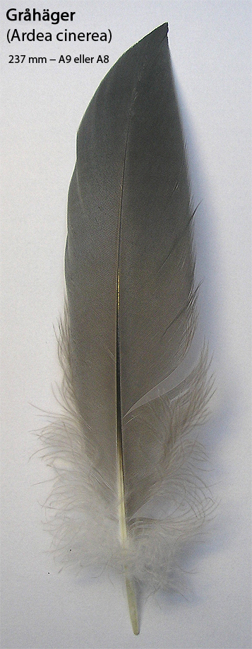 Secondary of a Grey Heron (Ardea cinerea).